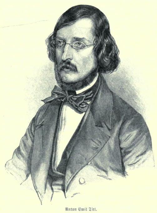 Portrait of Anton Emil Titl (1809 - 1882), Austrian composer.